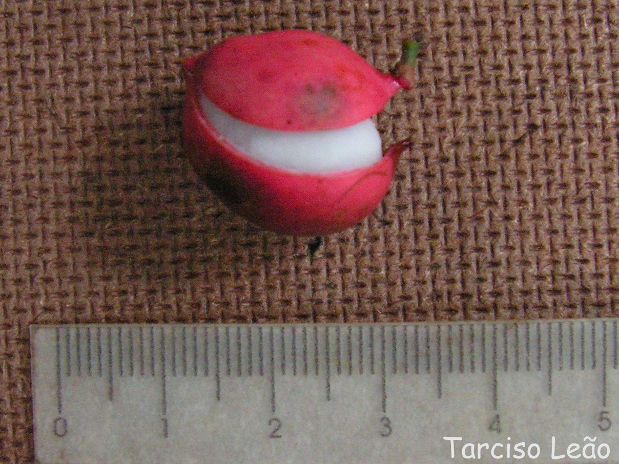 Protium heptaphyllum, amescla-de-cheiro